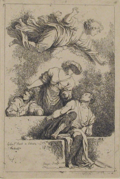 Print; Prints